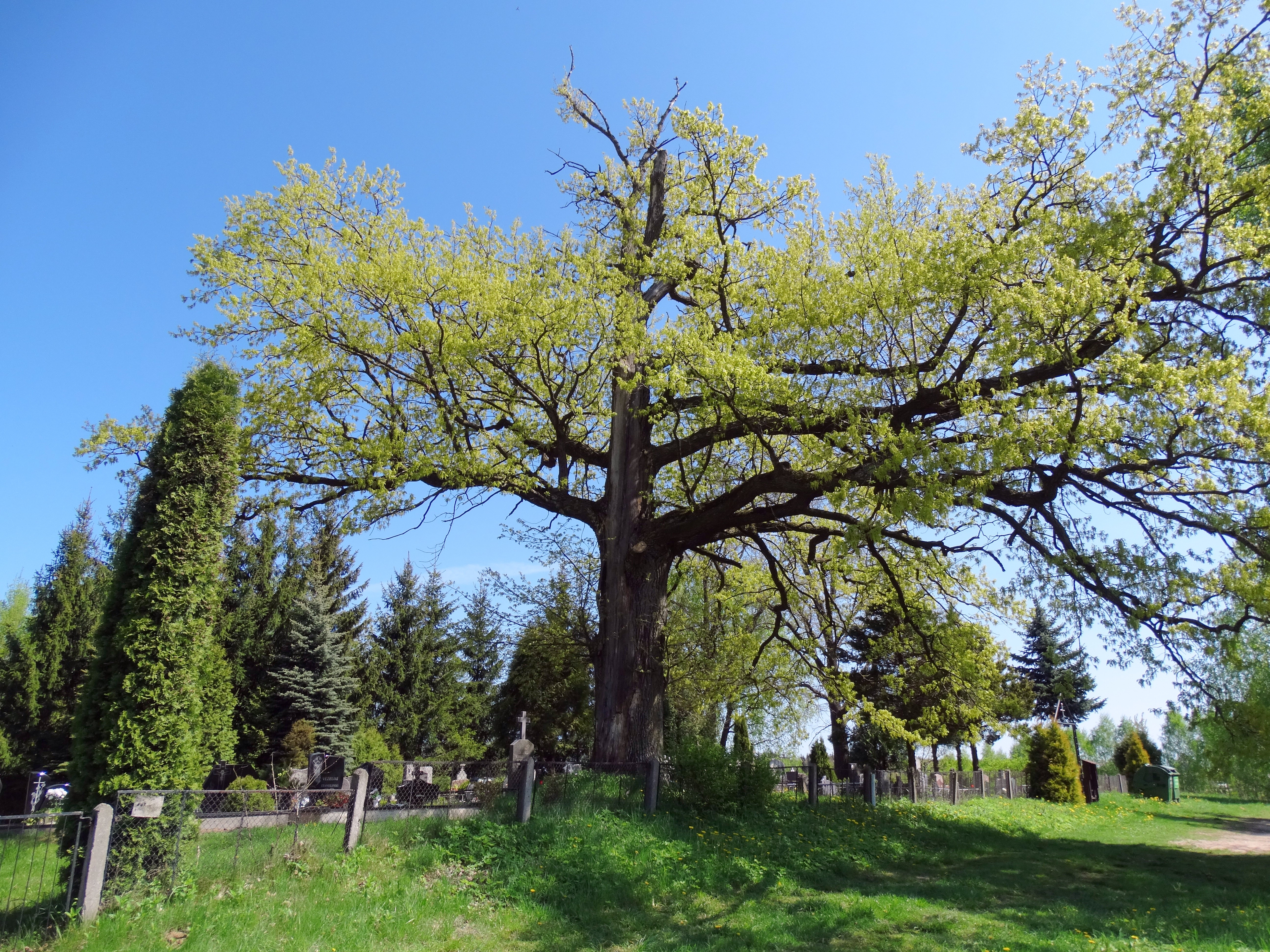 Oak tree, Streipūnai, Elektrėnai Municipality, Lithuania